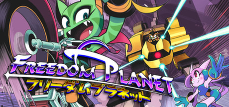 The artwork displayed for Freedom Planet in lieu of physical boxart on Steam.